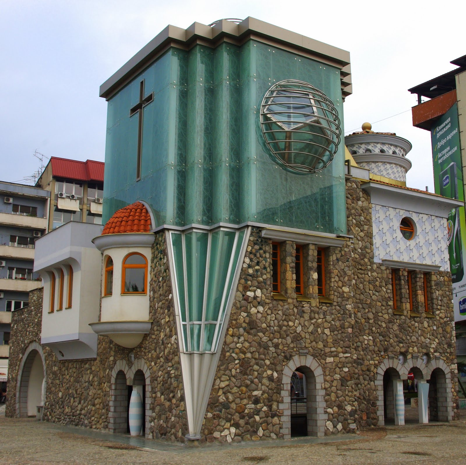 Monument to Mother Teresa